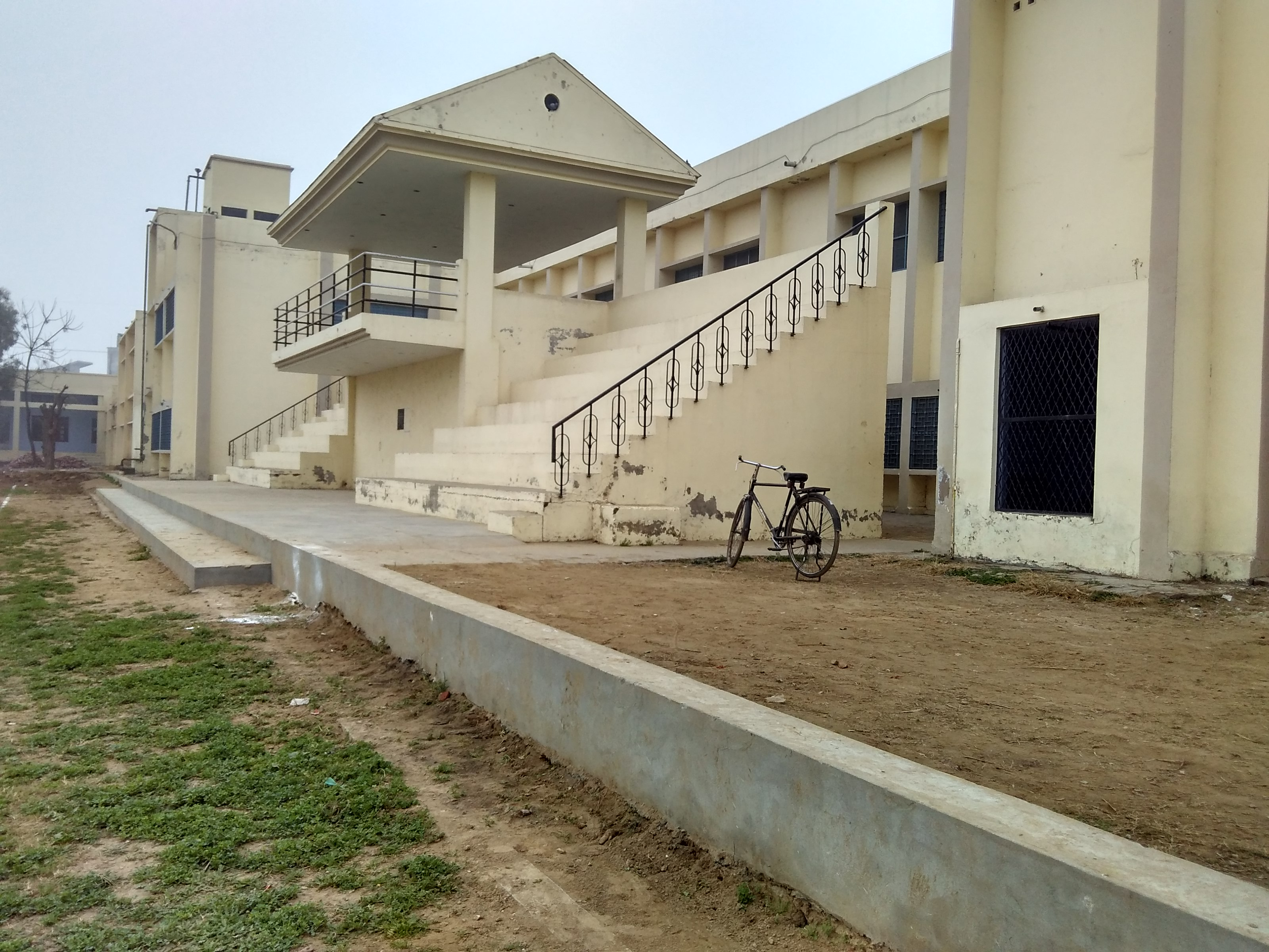 ਫੁੱਟਬਾਲ ਸਟੇਡੀਅਮ ਪਲਾਹੀ ਸਾਹਿਬ